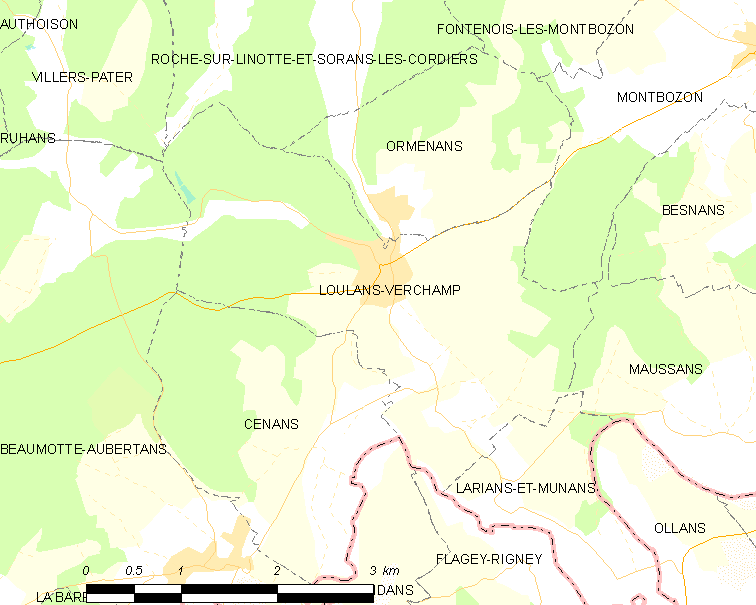 Map of French municipality